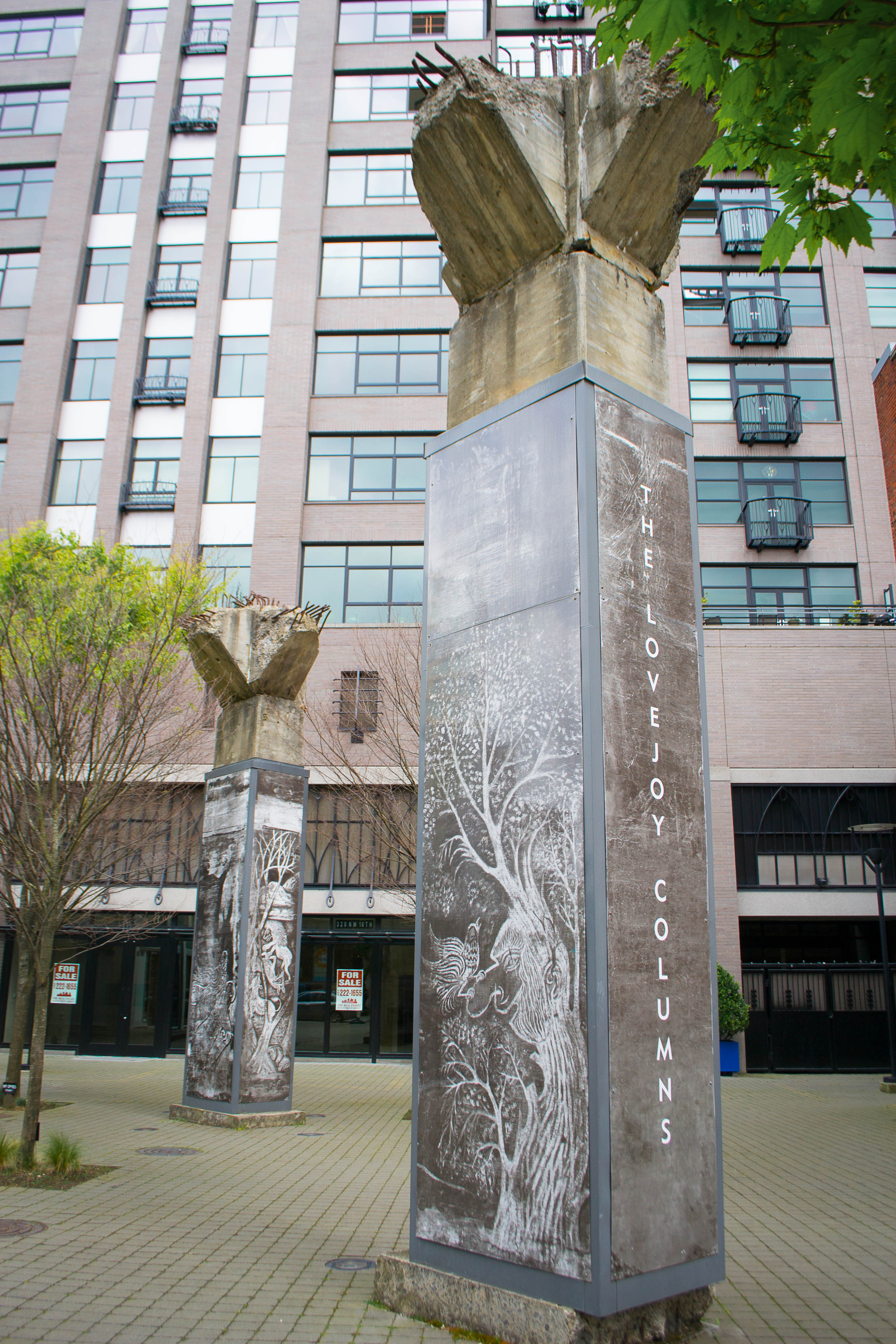 Some of the salvaged columns from the former Lovejoy viaduct